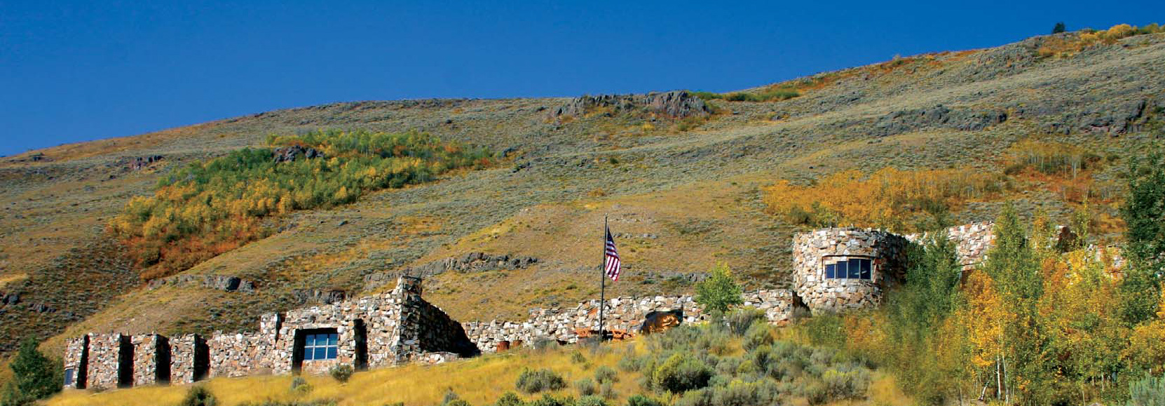 This photograph of the National Museum of Wildlife Art shows the Oakley Quartzite from Oakley, Idaho, which replaced the previous facade of Arizona Sandstone from the Dinbar Quarry in Ash Fork, Arizona.